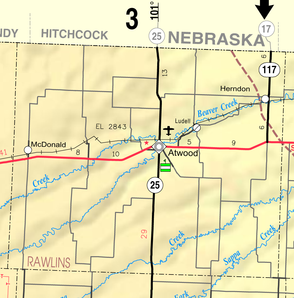 This map of Rawlins County, Kansas, USA, is copied at a resolution of 300 pixels/inch from the original PDF file.